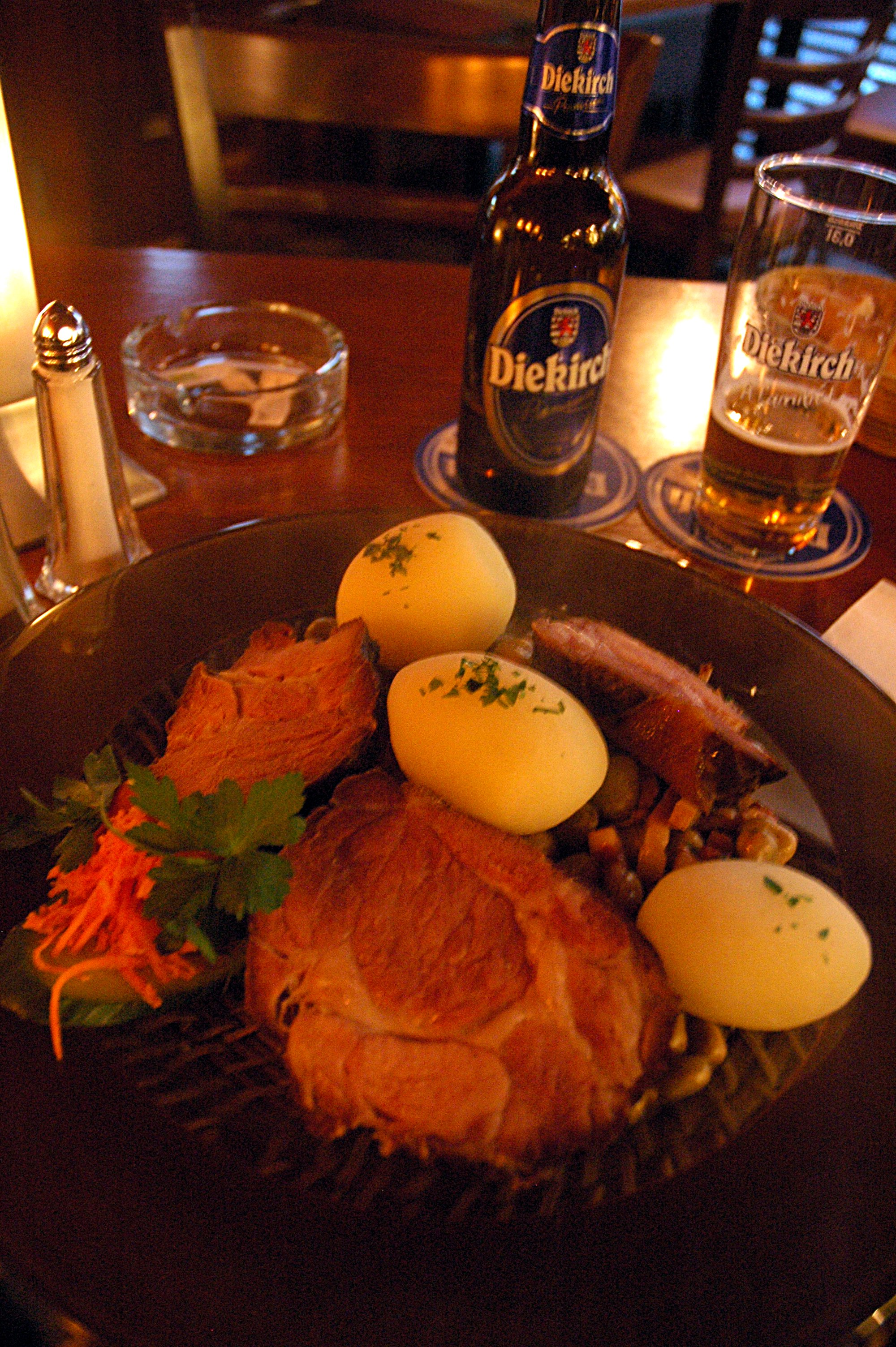 Judd mat Gaardebounen (smoked pork neck with stewed broad beans), the unofficial national dish of Luxembourg, served with local Diekirch beer. Prepared by and taken at restaurant La Fontaine, place de Paris, Luxembourg.